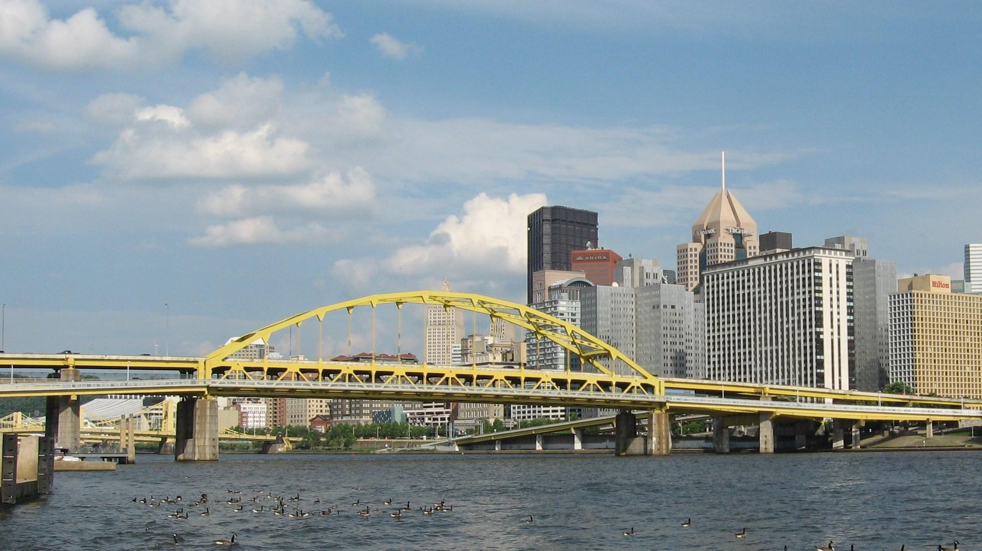 The Fort Duquesne Bridge in Pittsburgh, with Downtown Pittsburgh in the background40°26′39.6″N 80°0′33″W / 40.444333°N 80.00917°W